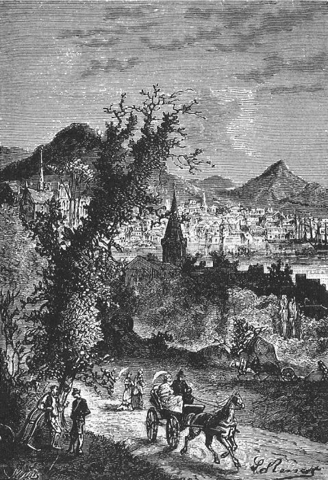 An illustration from Jules Verne's novel "The Begum's Fortune" (also published as "The Begum's Millions").